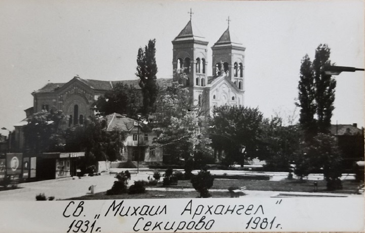 Anniversary photo of St. Michael the Archangel Michael in Rakovski